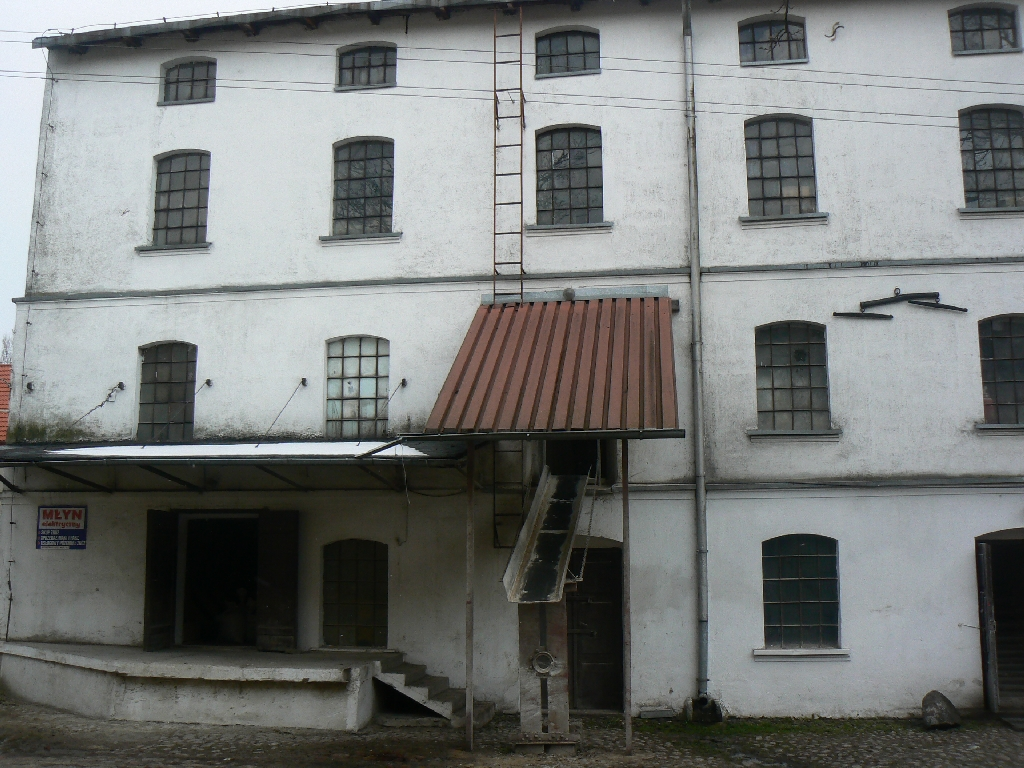 Electric mill in Bełchatów